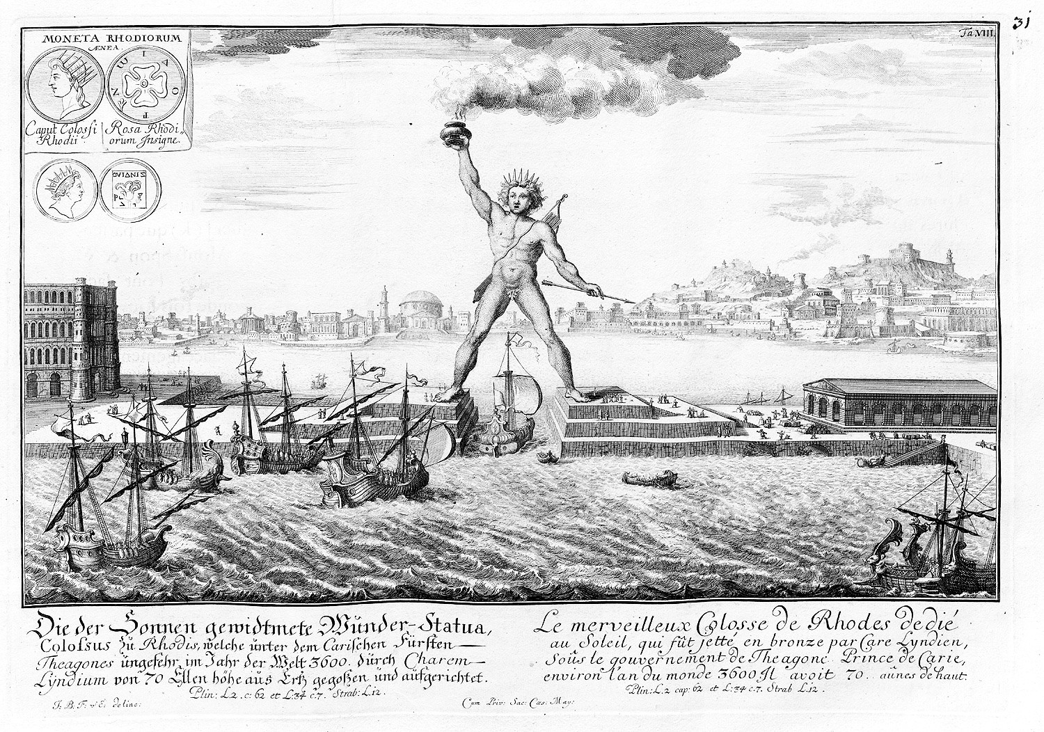 Illustration from "Entwurff einer historischen Architectur" (Project of a historic architecture). The colossos of Rhodos.